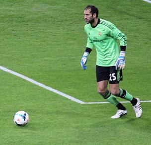 Picture from 28 Septemeber game between Real Madrid and Atlético Madrid.